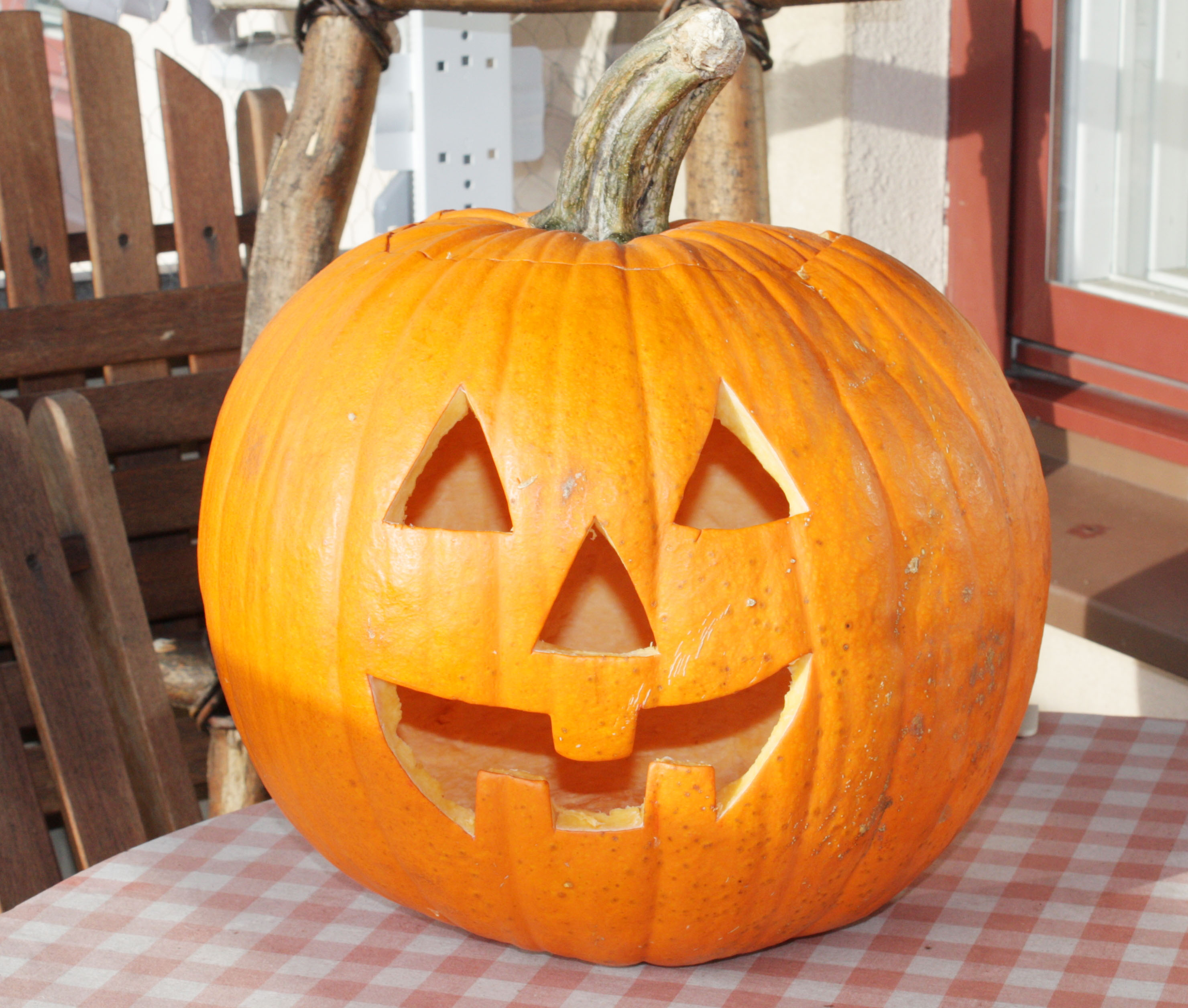 Jack-o'-lantern